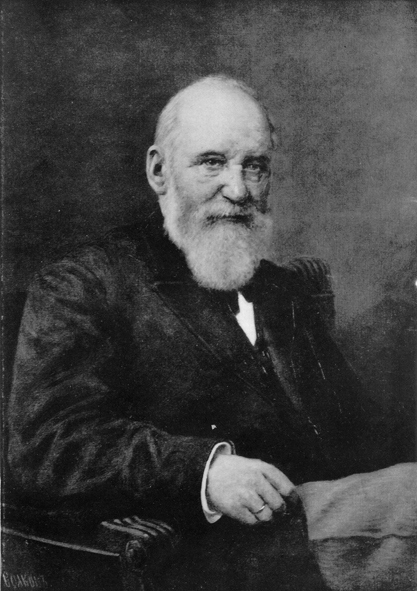 Mykola Storozhenko - Ukrainian literary historian.